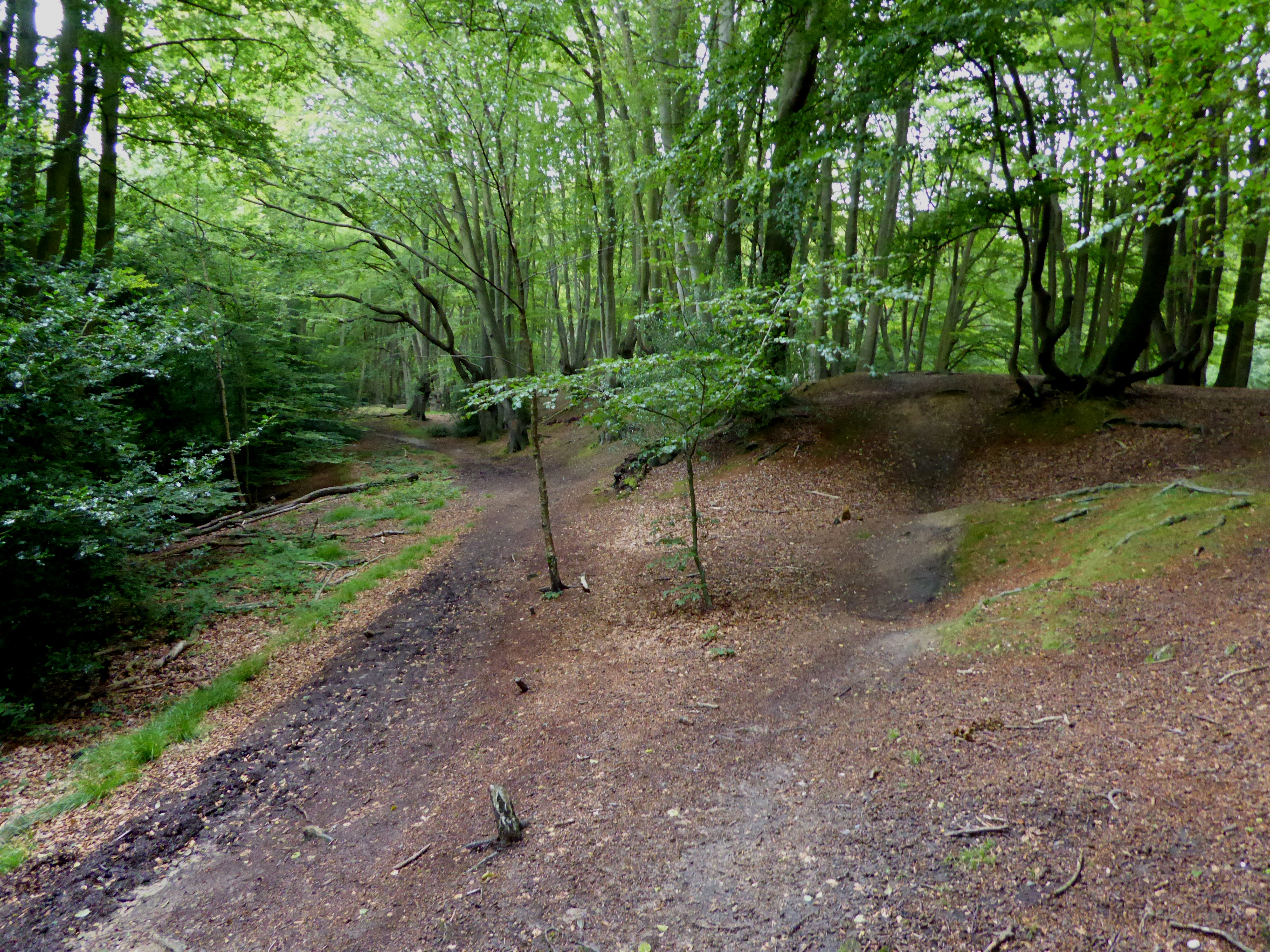 Photograph taken along the exterior of the western bank of Loughton Camp in Epping Forest, Essex. Facing a general northward direction